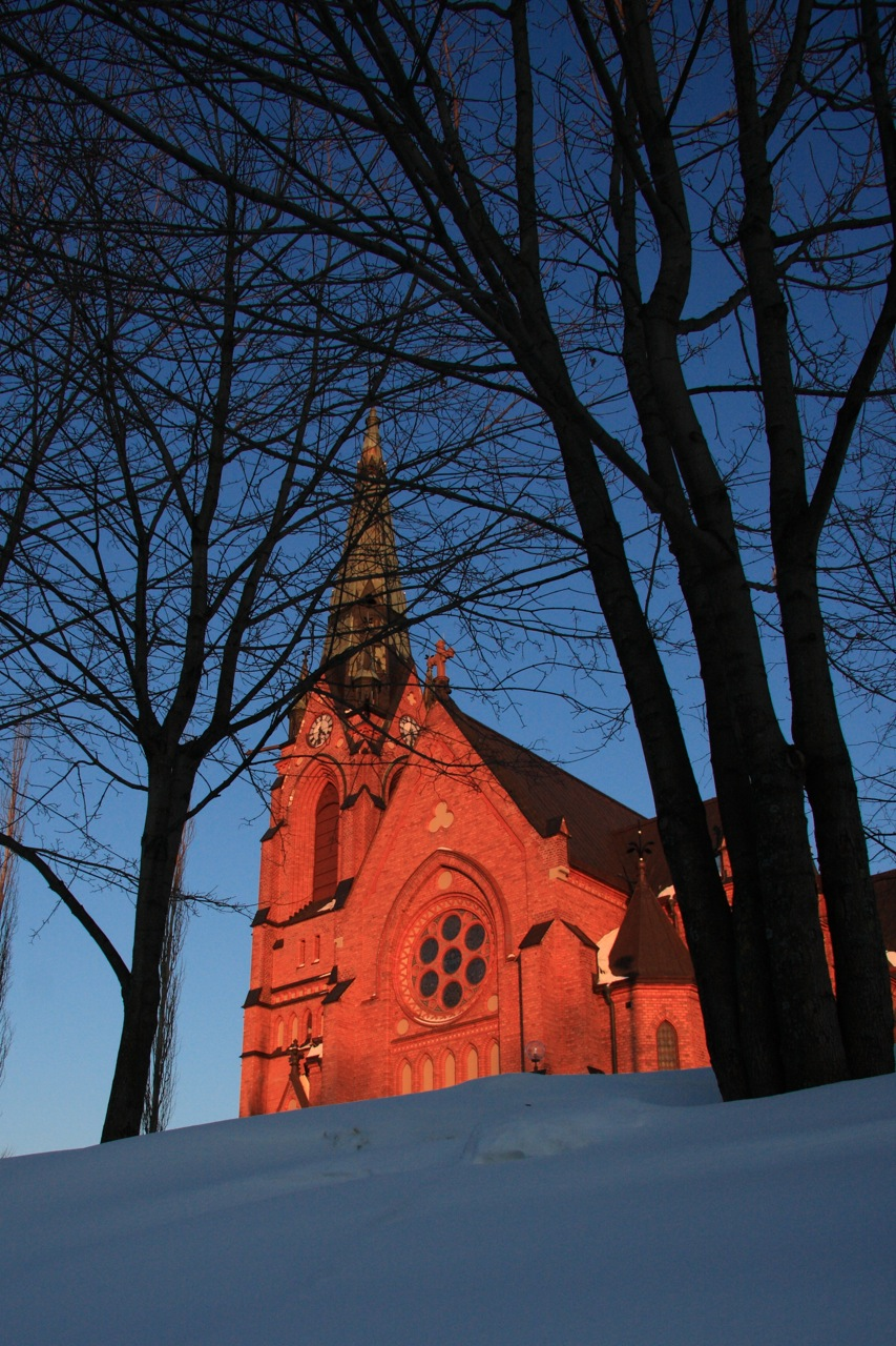 Church in the center of Umea (Sweden) at sunset.